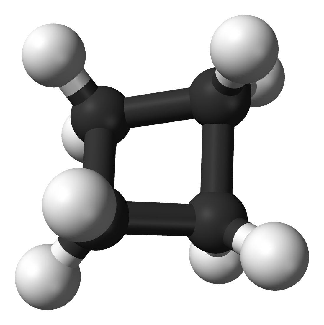 Ball-and-stick model of the cyclobutane molecule in a puckered conformation